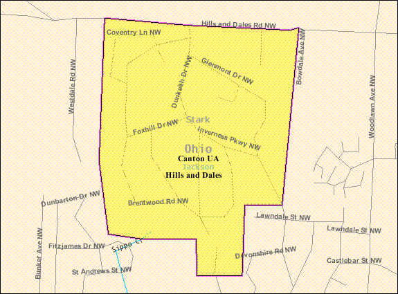 Map of Hills and Dales, a village in Stark County, Ohio, United States, with its boundaries at the time of the 2000 census.